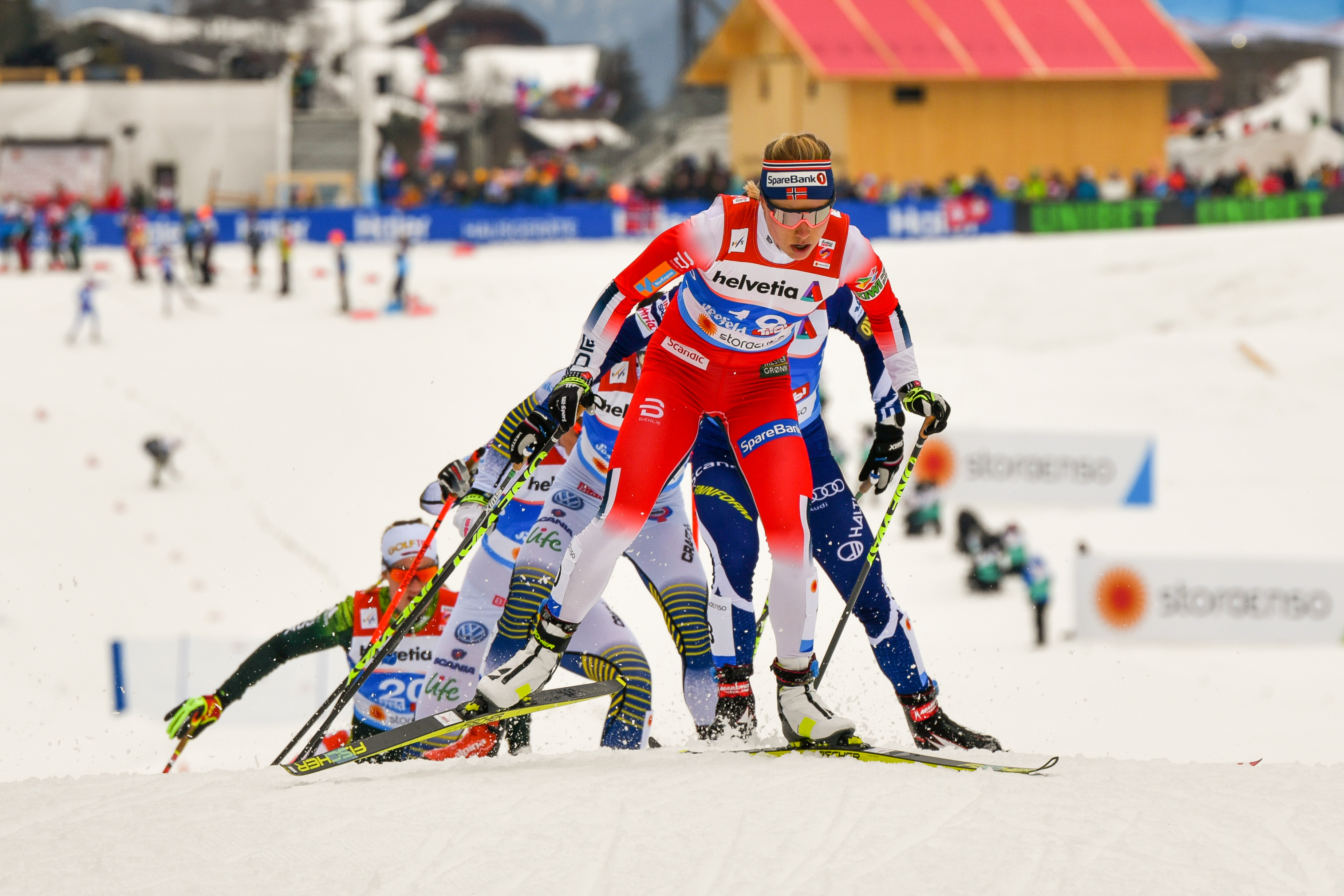 FIS Nordic Wolrd Ski Championships Seefeld 2019 - Ladies 30km Mass Start Free. Picture shows Ragnhild Haga (NOR).